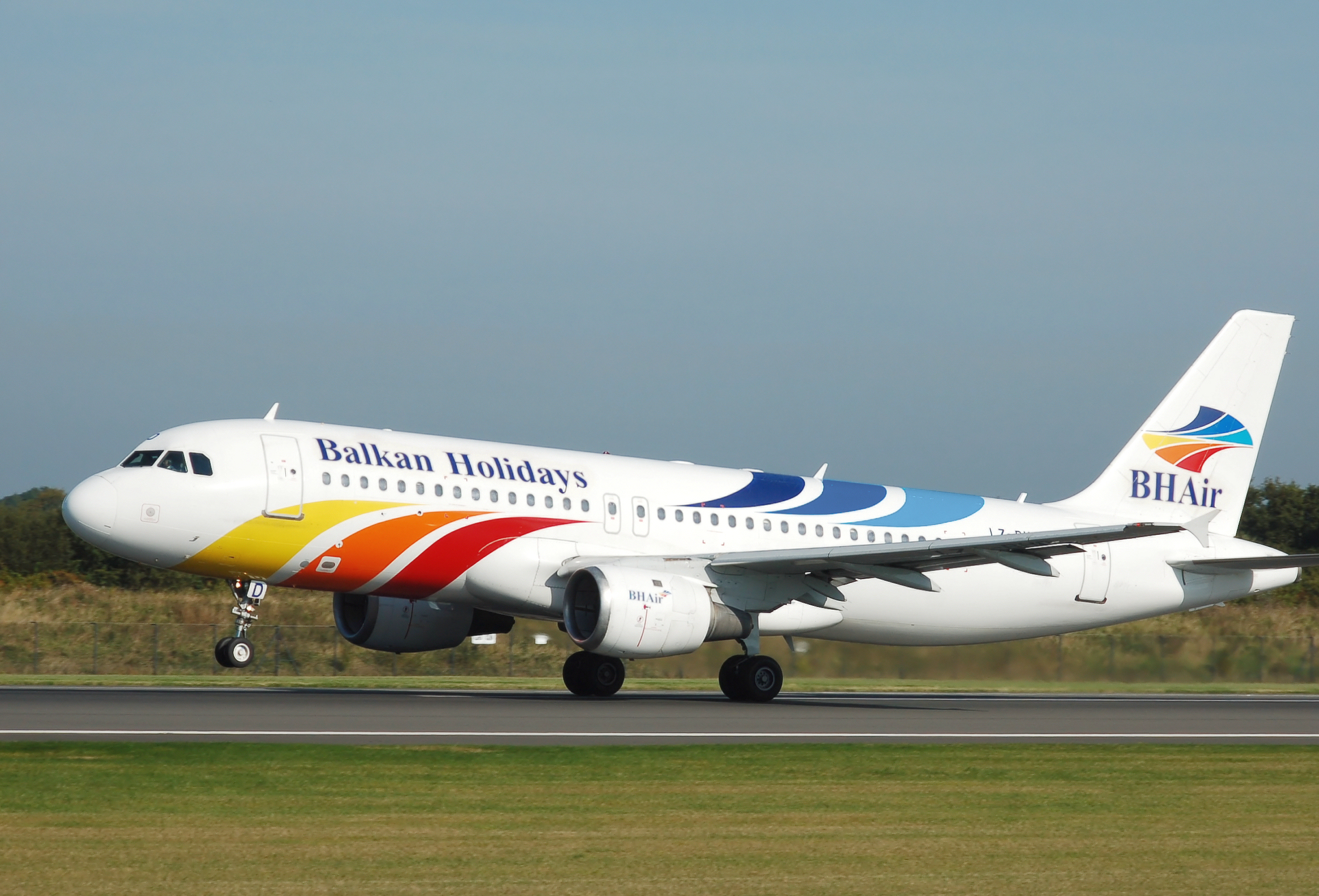 BH Air Airbus A320-200 (LZ-BHD) takes off at Manchester Airport, England.